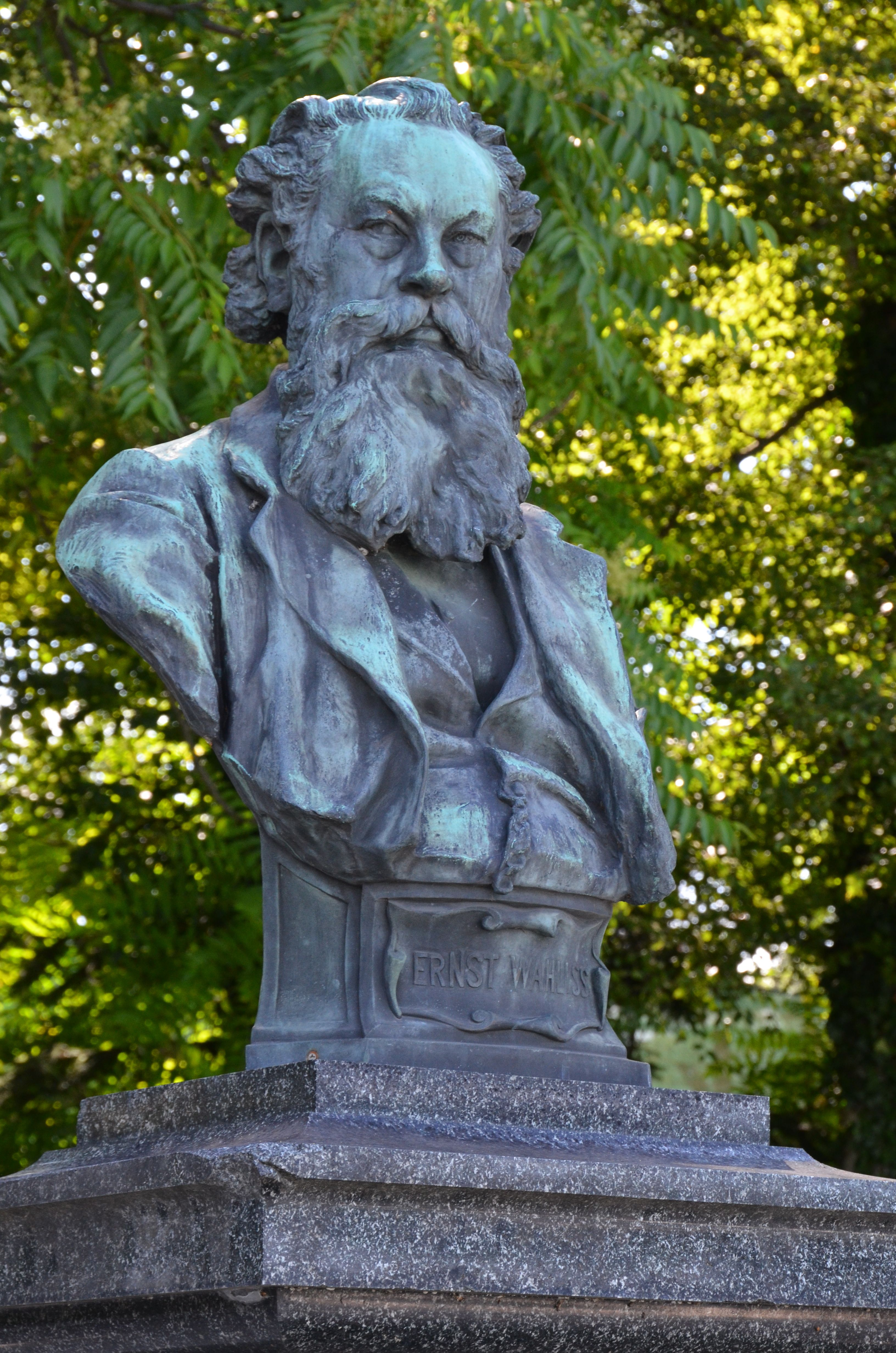 Ernst Wahliß-bust on the Johannes-Brahms-Promenade, municipality Pörtschach am Wörther See, district Klagenfurt Land, Carinthia, Austria, EU